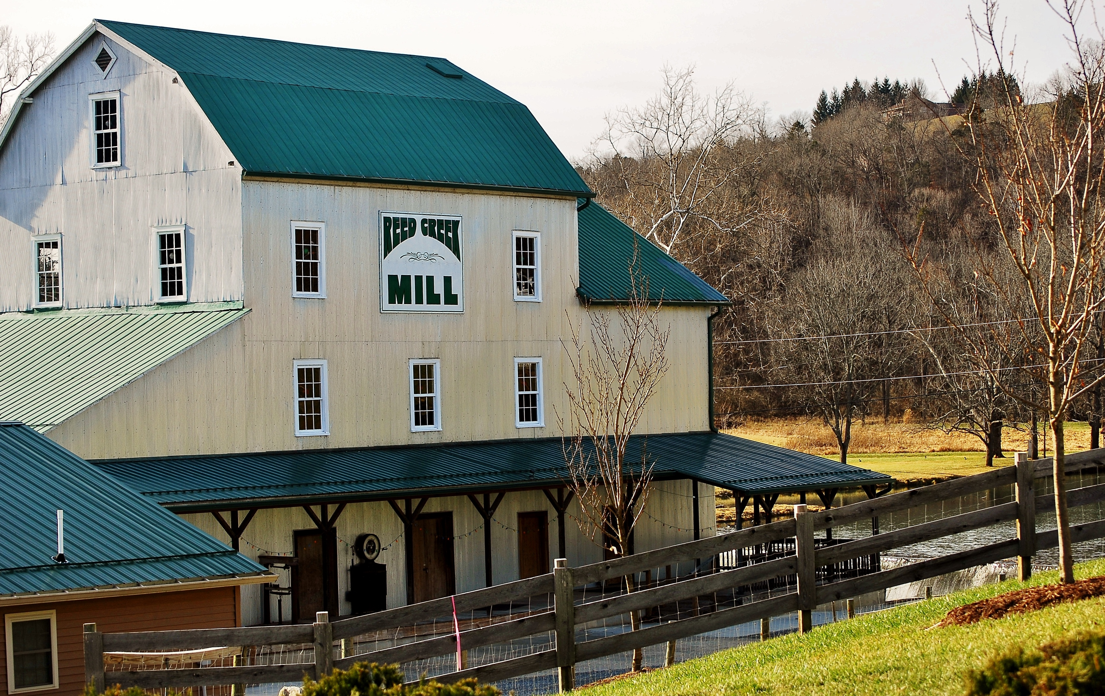 Reed Creek Mill this is the third mill to exist on the site. The first was built around 1858. The mill's power was used during the Civil War to repair/manufacture guns. The first mill was demolished in 1896. The second mill burned around 1934. This is the third mill, no longer milling.